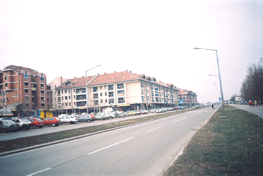 Image of Novo Naselje neighborhood in Novi Sad. Serbian: Слика Новог Насеља (Бистрице) у Новом Саду.